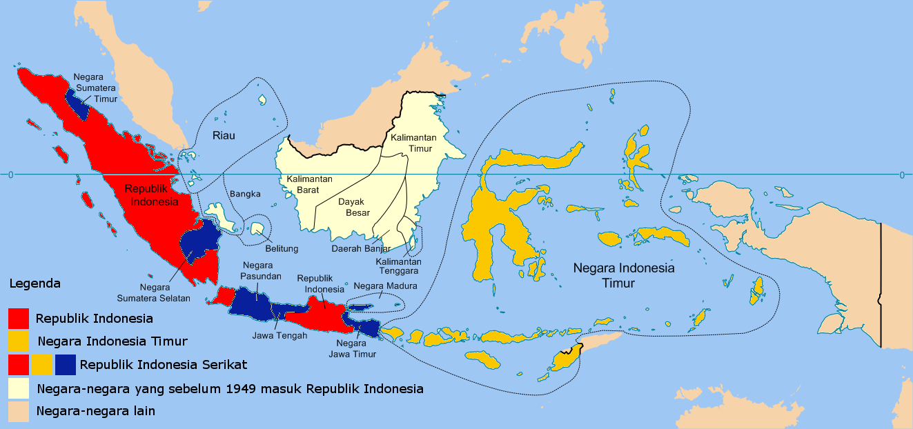 Peta Republik Indonesia Serikat (or Republic of the United States of Indonesia) with Indonesian text